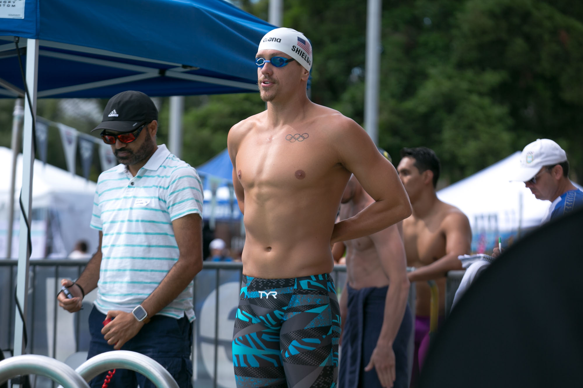 Tom Shields-2